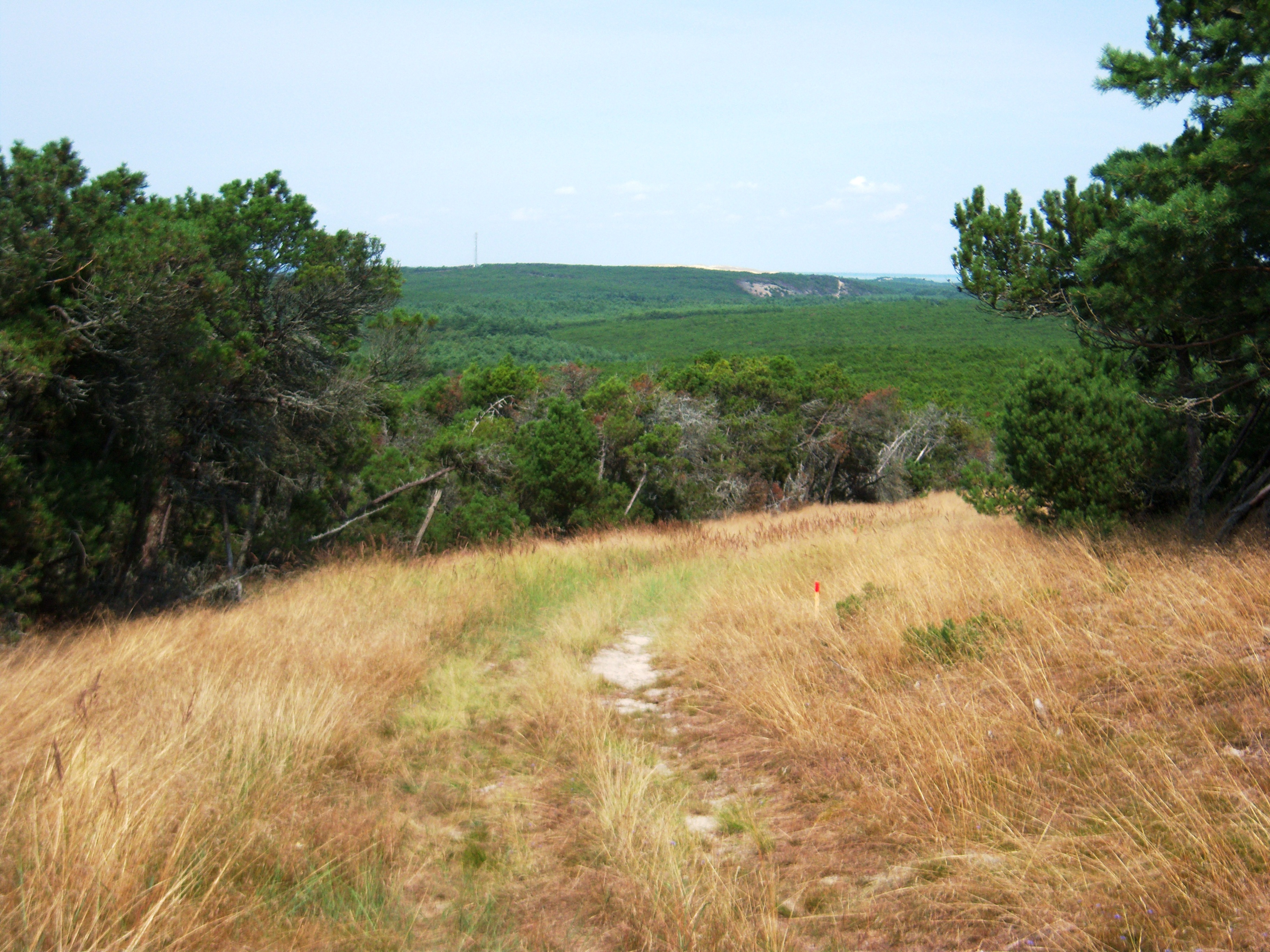 View from Karvaičiai Dune by Preila, Neringa, Lithuania